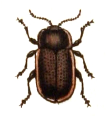 Chrysolina marginata, from Calwer's Käferbuch, Table 44, Picture 10. Taxonomy was updated to 2008, using mostly the sites Fauna Europaea and BioLib. Please contact Sarefo if the determination is wrong!